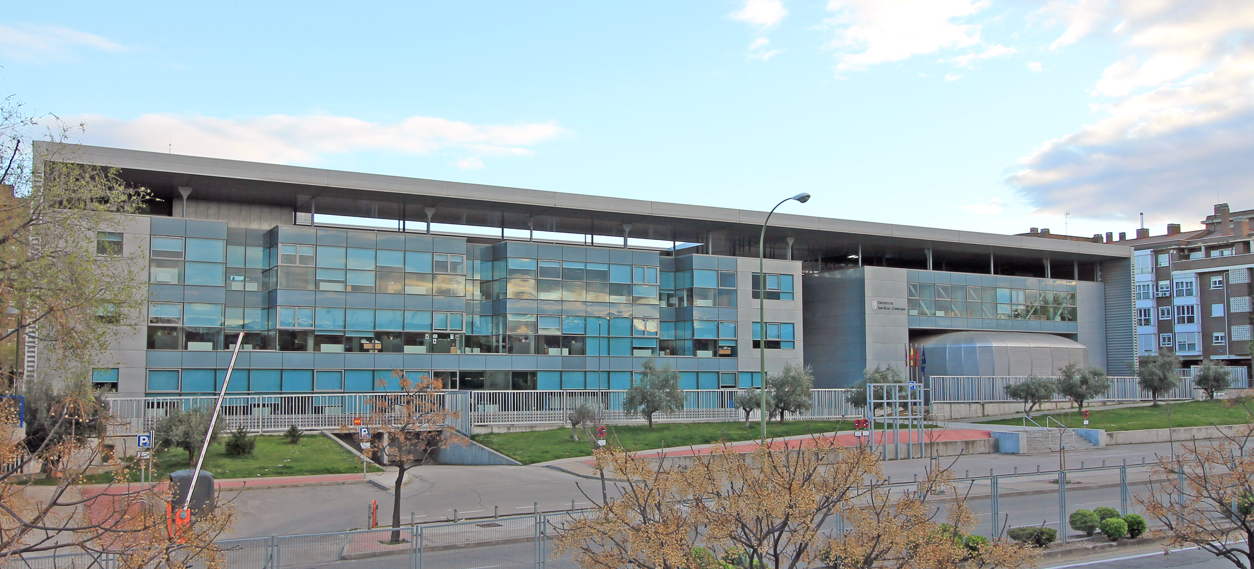 View of San Blas-Canillejas District Hall in Madrid (Spain).